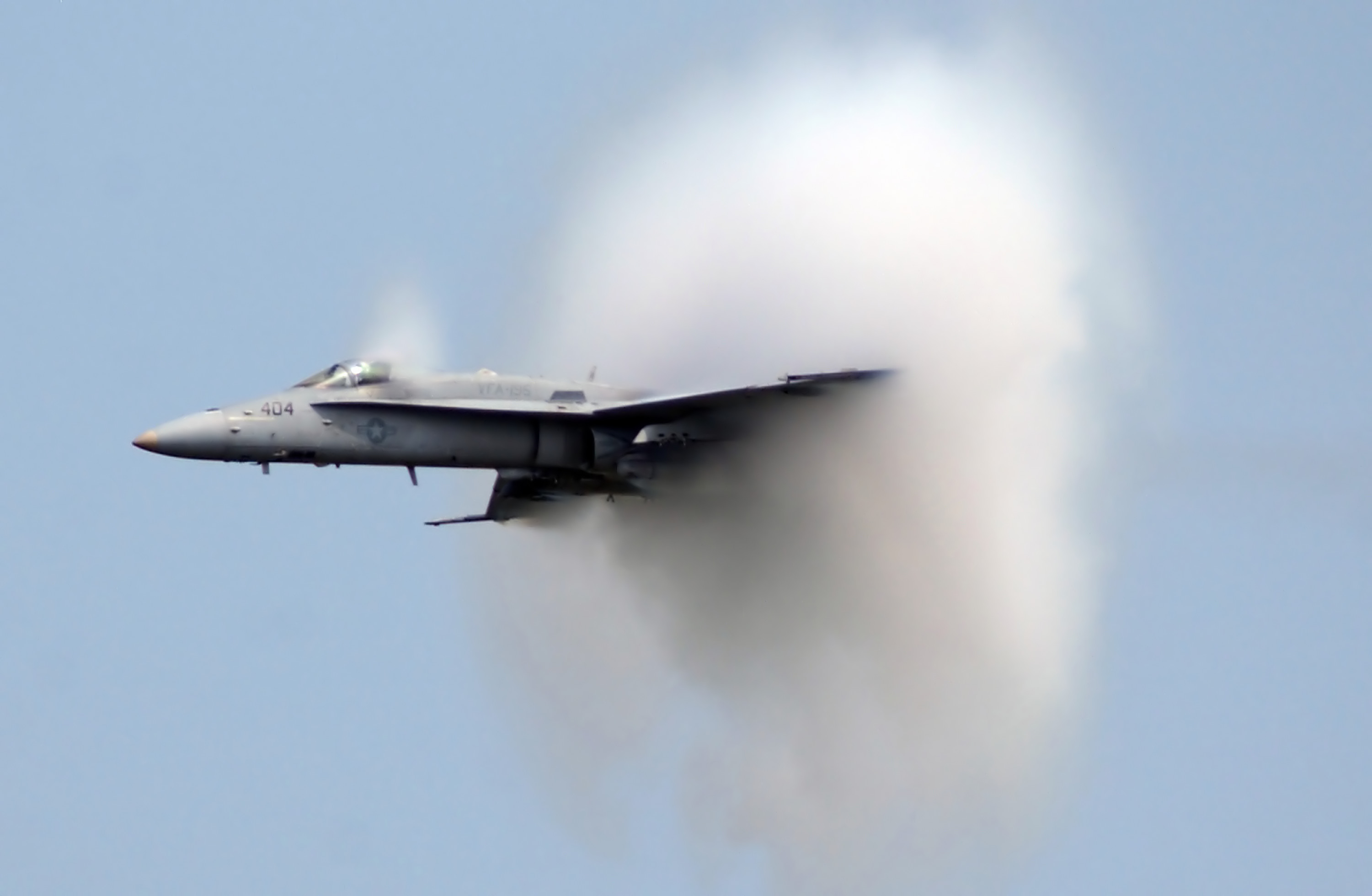 A U.S. Navy McDonnell Douglas F/A-18C Hornet from Strike Fighter Squadron 195 (VFA-195) Dambusters, Carrier Air Wing 5 (CVW-5), Naval Air Station (NAS) Atsugi, Japan (JPN), breaks the sound barrier during the Freedom through Friendship Air Show at Osan Air Base (AB), Republic of Korea (KOR). This is an edited version of the image.